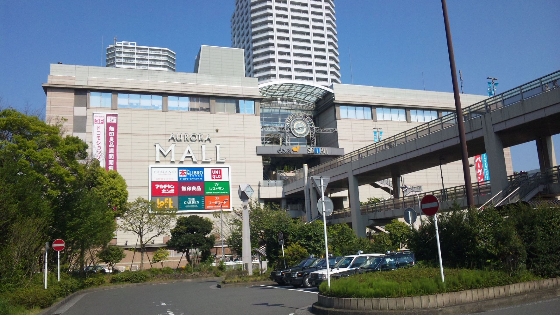 HIGASHITOTUKA AURORA MORL